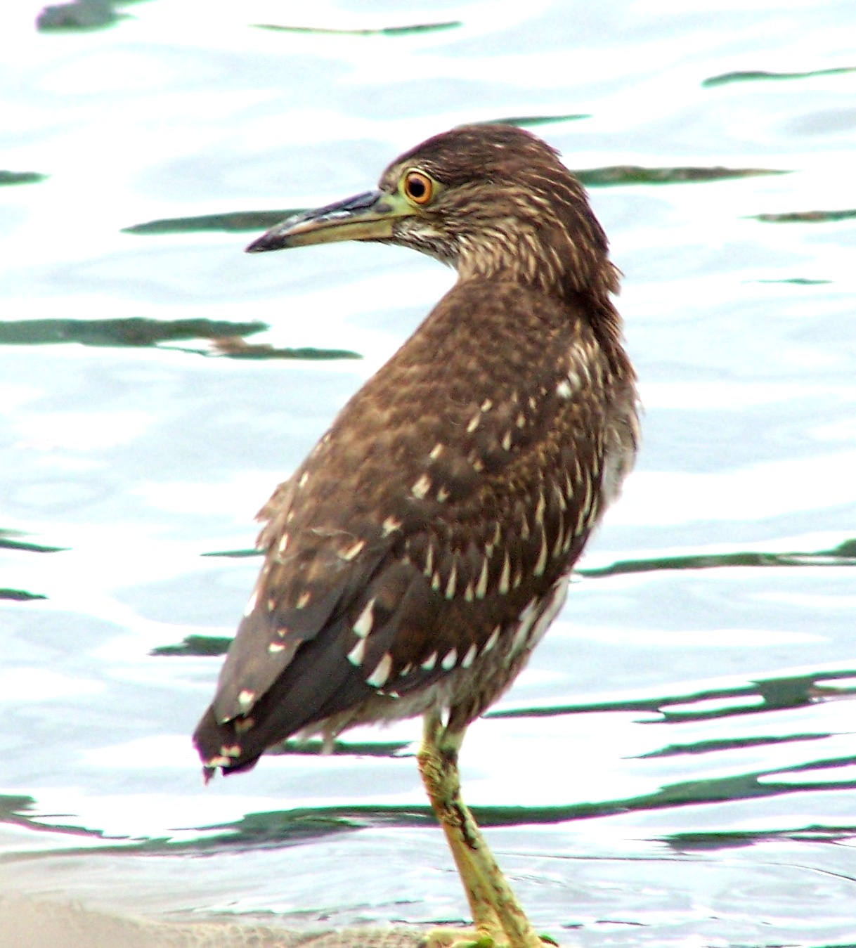 Black-crowned Night Heron Nycticorax nycticorax, juvenile, Hong Kong